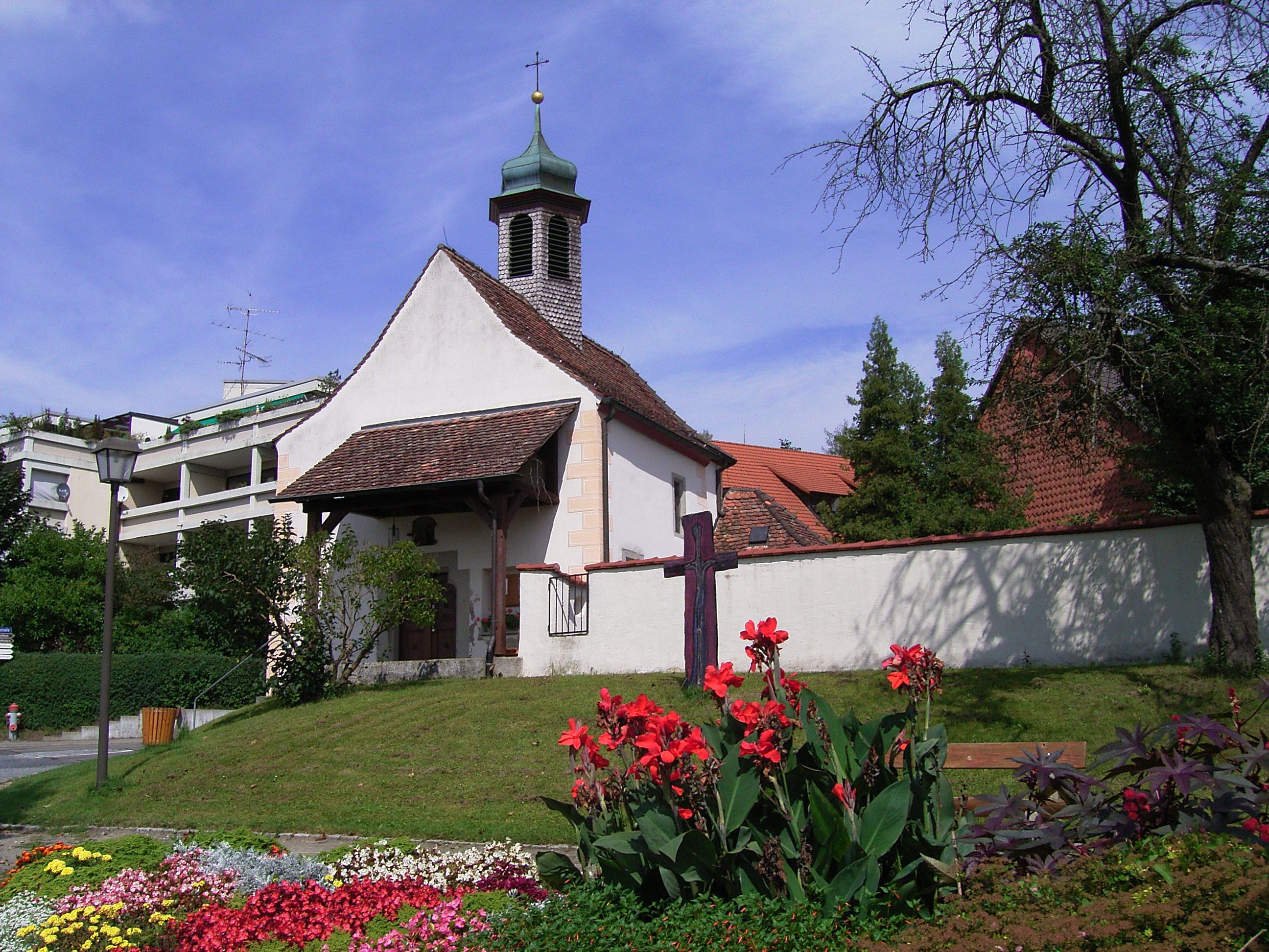 A Chappell named "St. Martin" located in Daisendorf, Germany